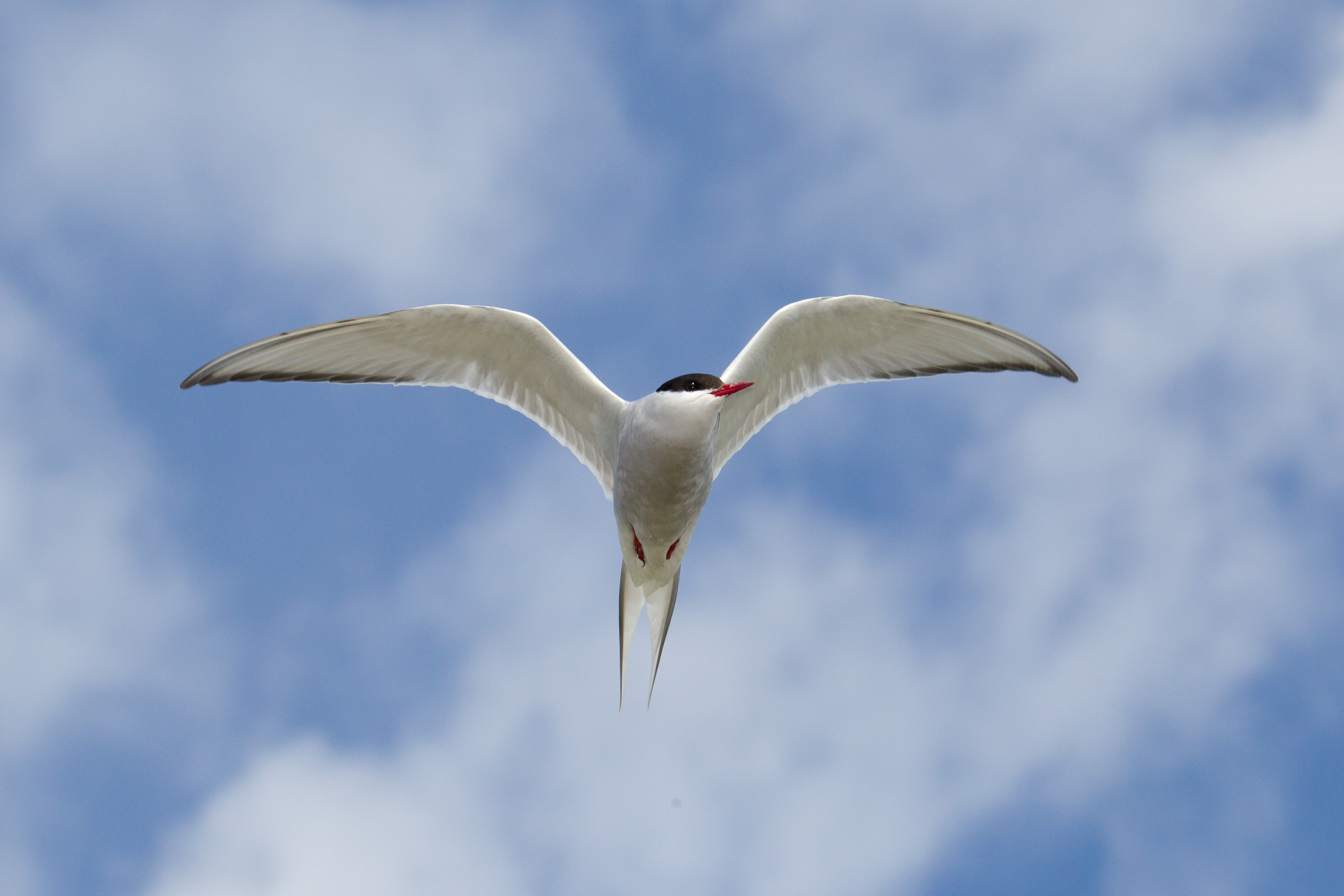 Arctic Tern